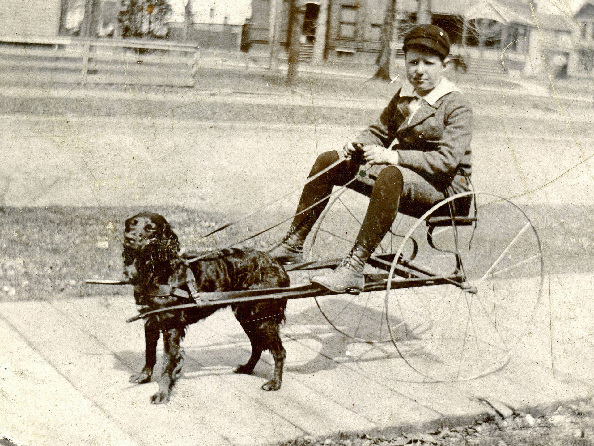 Miss Julia Jay Coon was a notable Toledo photographer, active around 1890. Miss Coon's work mostly consisted of portraits and scenes in and around Toledo, Ohio. She worked out of her parent's, Julius and Nancy Coon, home at 313 Floyd Street in the Old West end area of Toledo. Julia Jay Coon was born in Toledo on May 28, 1871. She married Edward Riddle on December 20, 1892. After her marriage, the U. S. Census reports state her occupation as "housewife" By the 1910 census, Julia and Edward had two children, Newlin J. Riddle and Courtney Riddle. Julia died December 2, 1940 and is buried in Toledo's Woodlawn Cemetery.